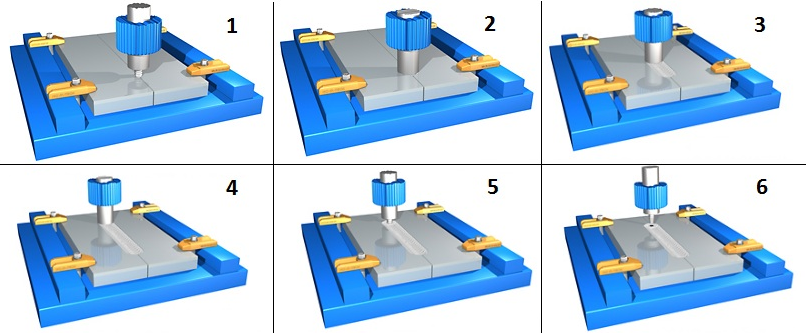 Process, step by step, of friction stir welding: 1) Pluging into metal. 2) Dwell at entry. 3) Joint in process. 4) End of joint. 5) Retracting the pin. 6) Fully retracted.